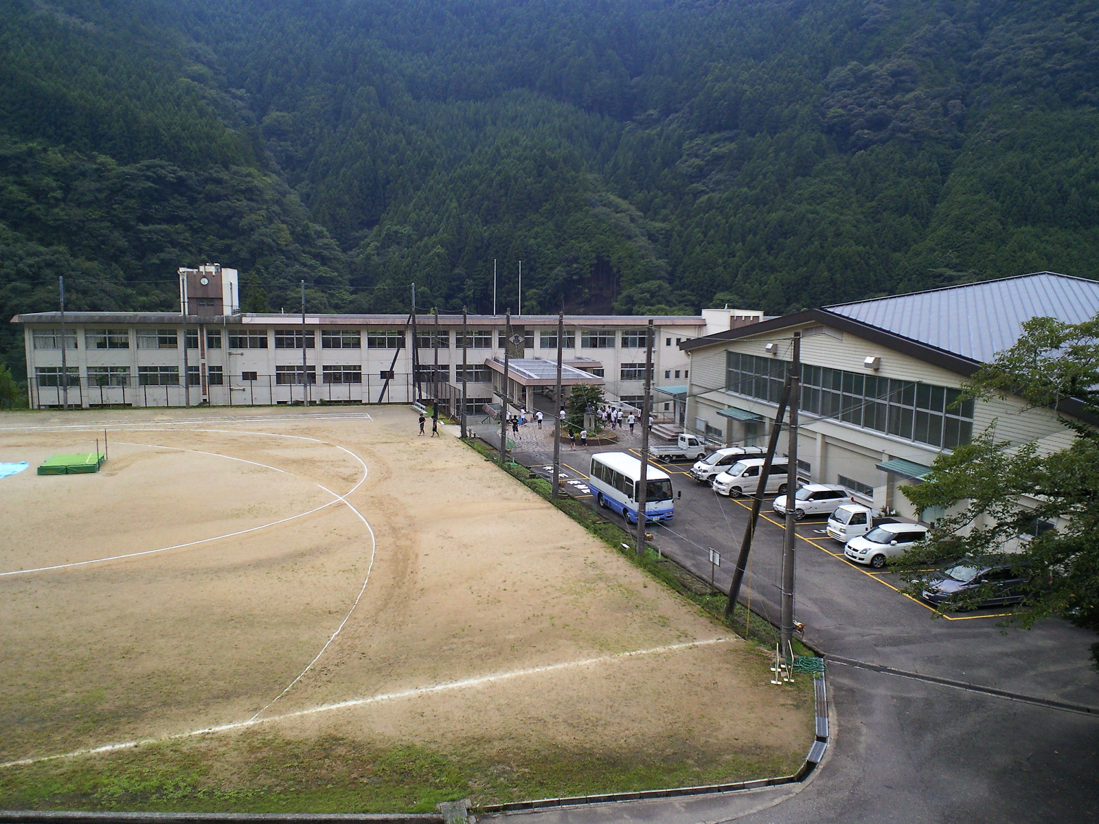 Totsukawa High School, Totsukawa, Nara